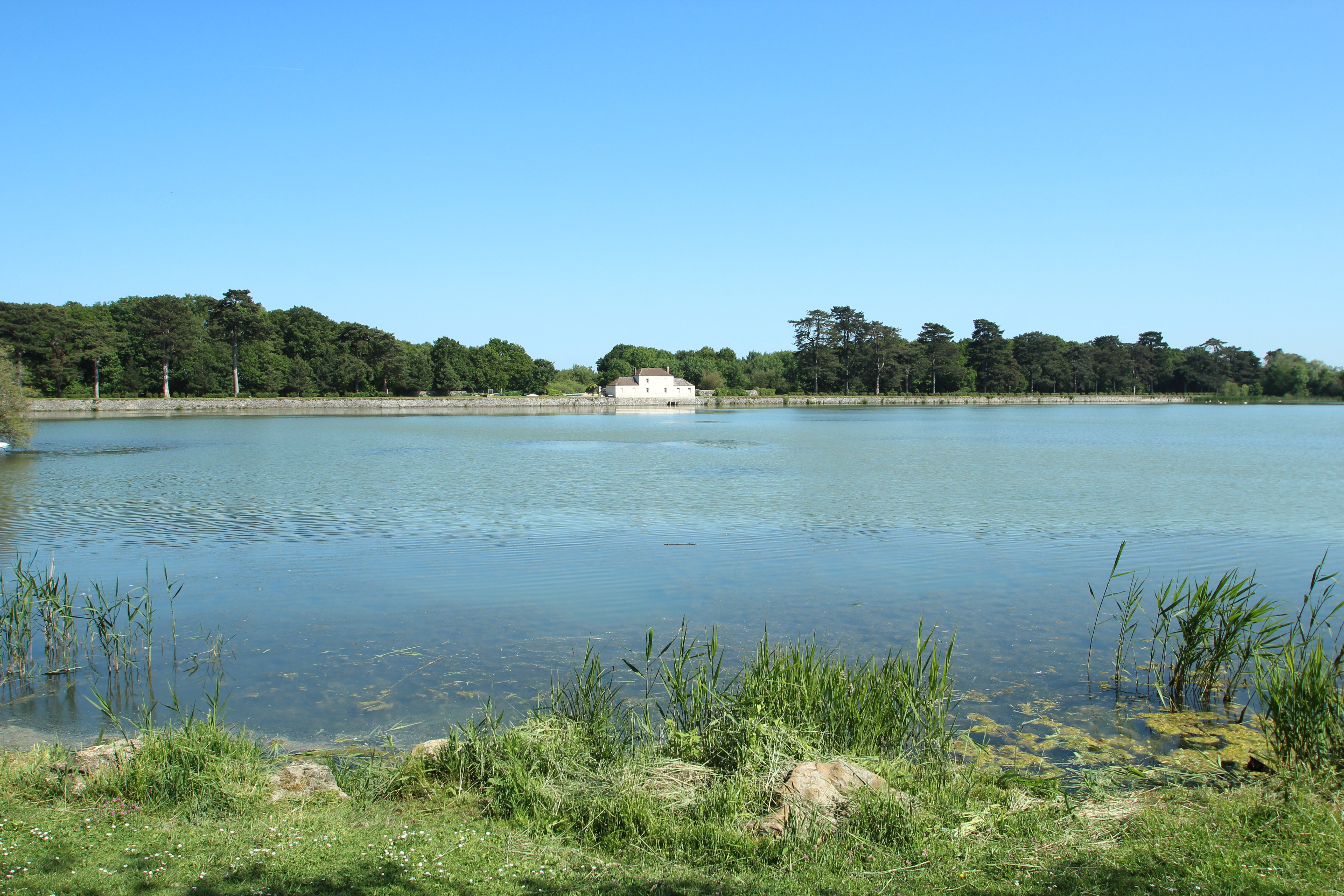 Noës pond in Le Mesnil-Saint-Denis in the Yvelines department in France.